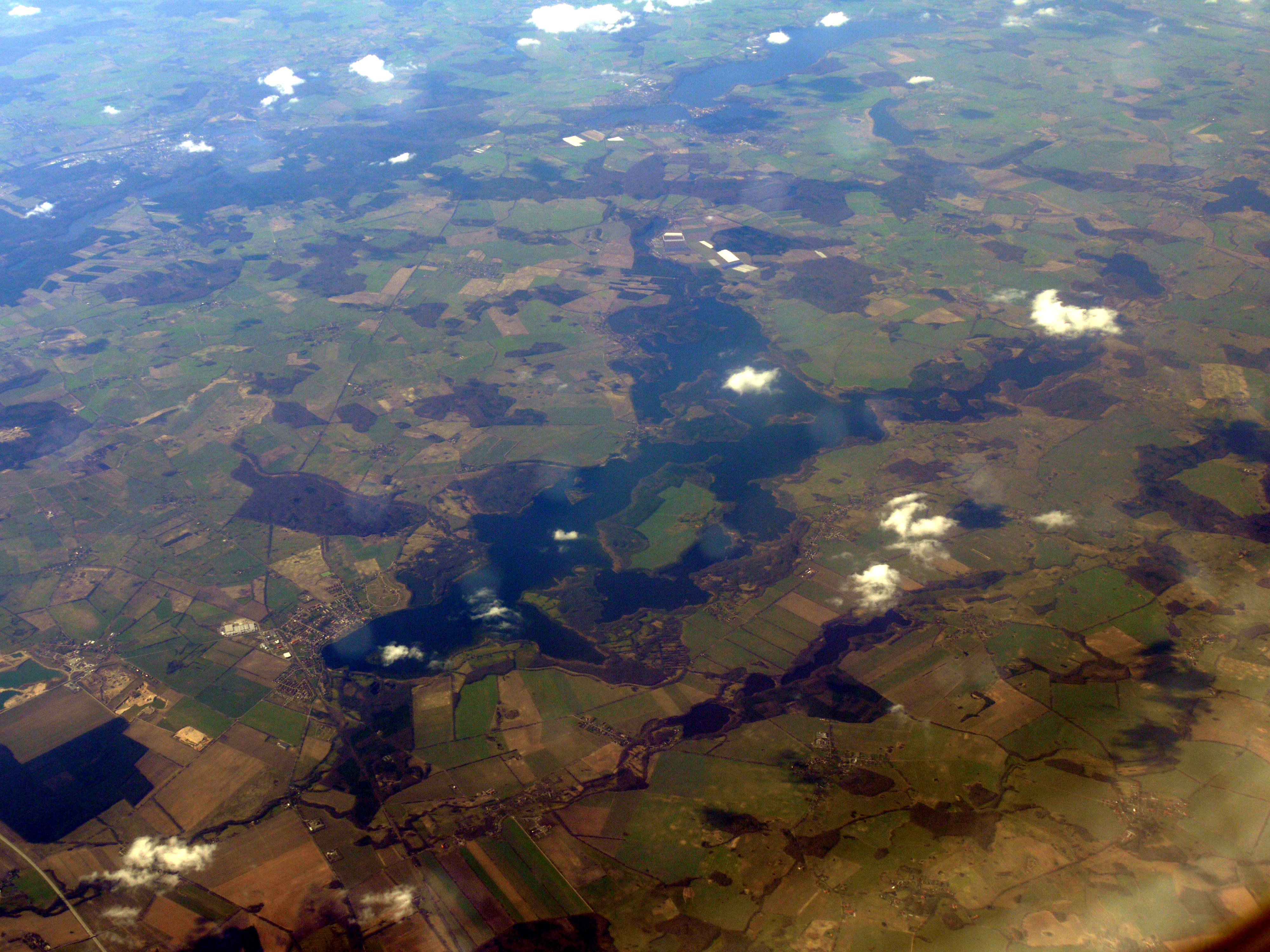 The Schaalsee, photograph taken from the sky, on the fly line between Marseille and Stockholm.